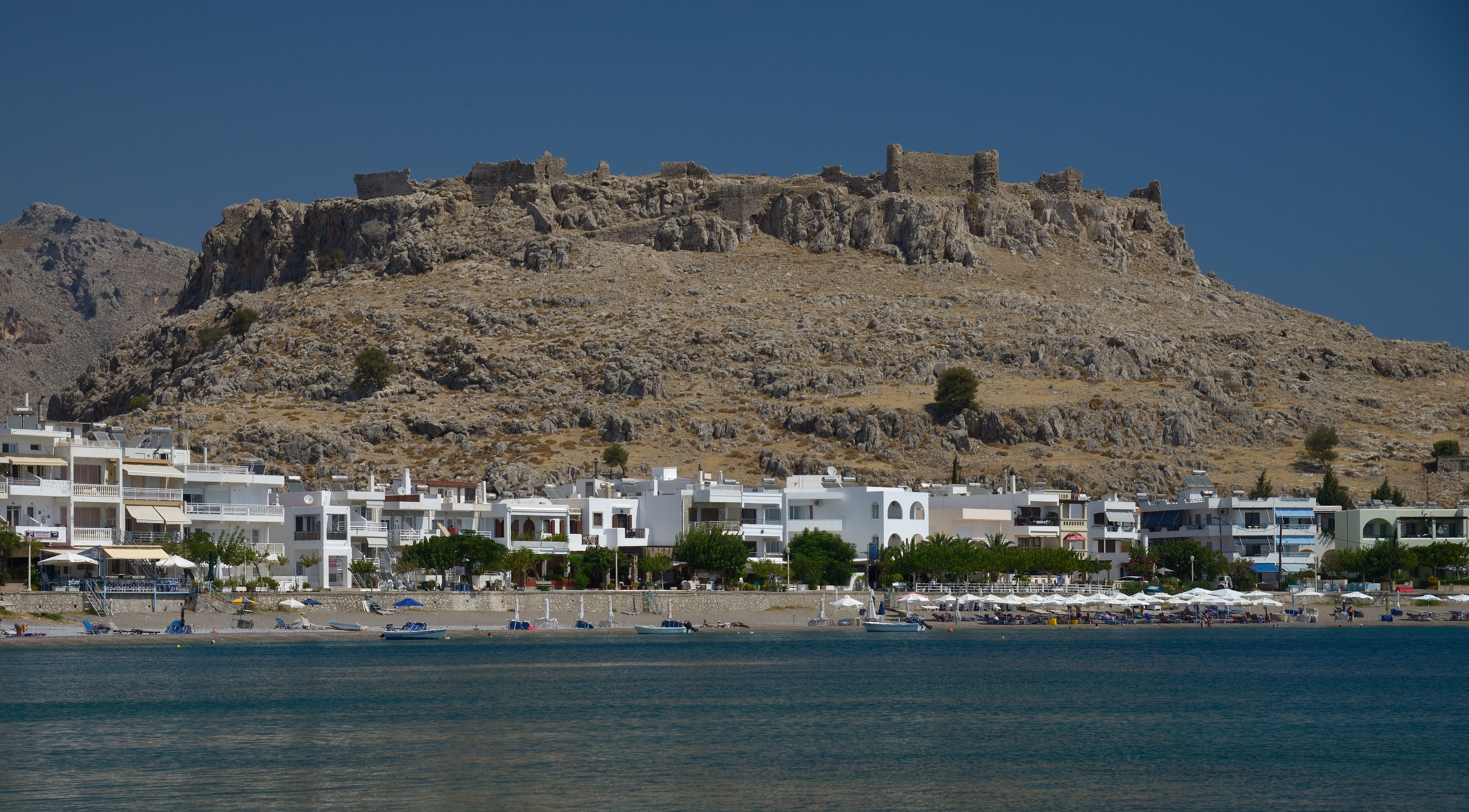 Feraclos Castle near Haraki, Phodes, Greece. View from the south. Morning.